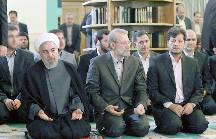 تصویر مجید منصوری بیدکانی در مجلس شورای اسلامی همراه با روحانی رییس جمهور و لاریجانی رییس مجلس